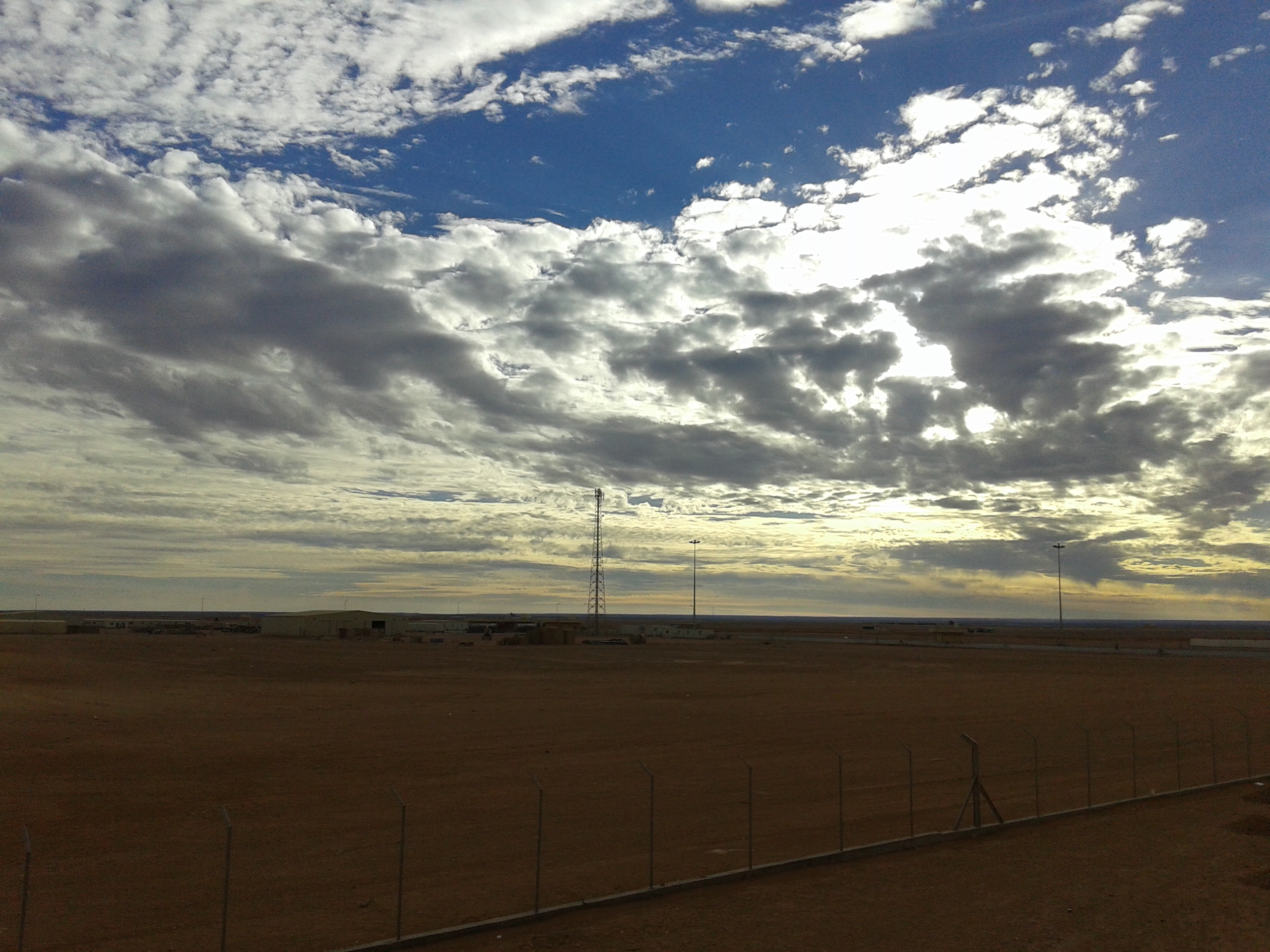 Cold Day .............